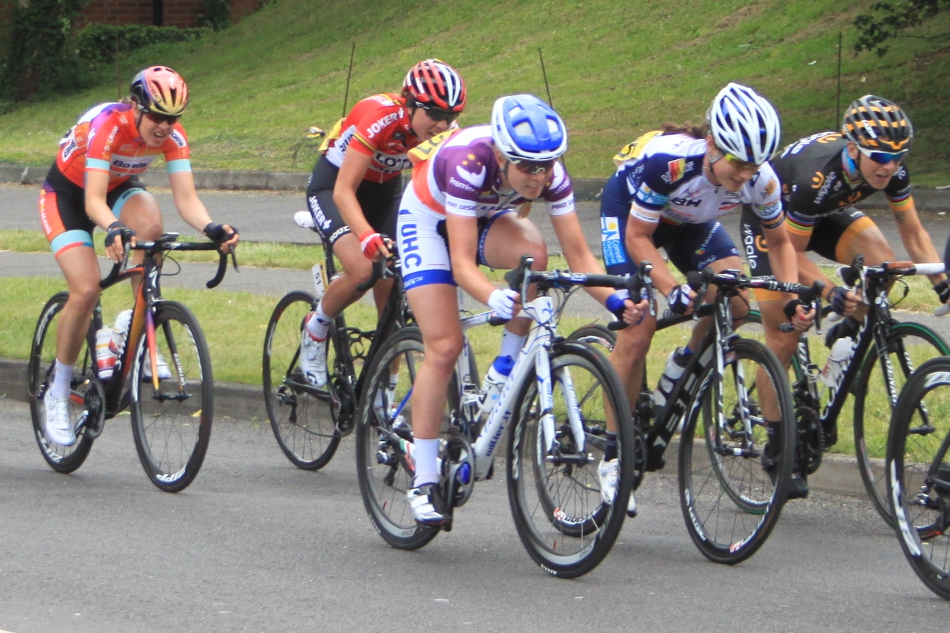 Hannah Barnes, wearing the purple jersey of the Best British Rider in The 2015 Women's Tour, is paced into the final straight by United Healthcare team mate Alexis Ryan. Hannah won the stage by a few centimetres.